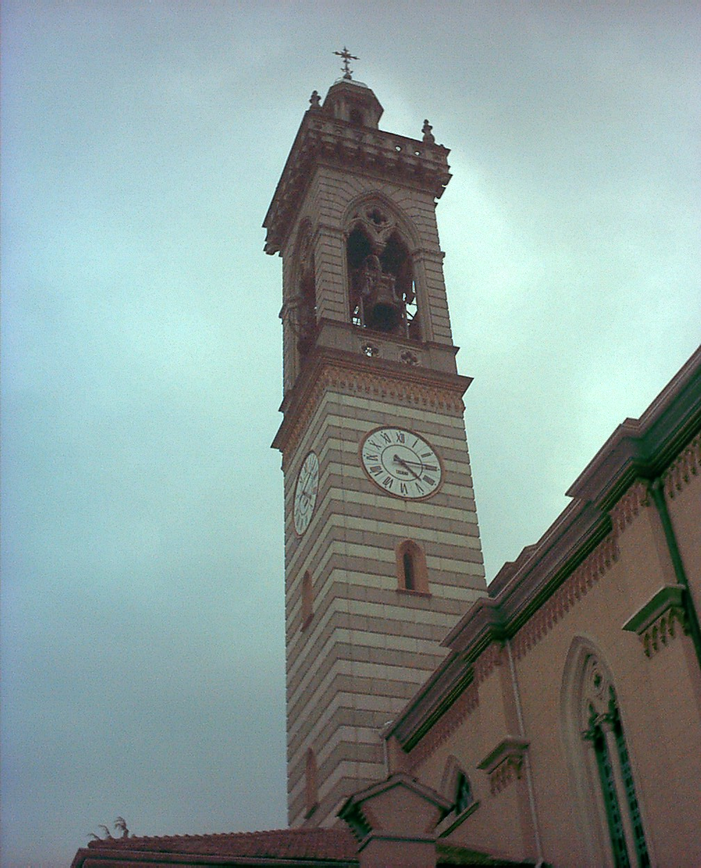 Bell tower, Brembilla, Bergamo, Lombardy, Italy